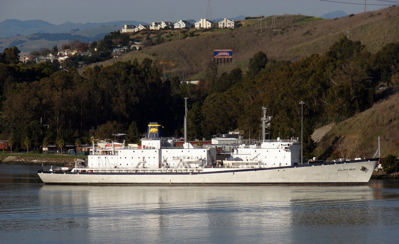 The Golden Bear ship in California State University. IMO Number: 8834407 MMSI Number: 367978000 Callsign: NMRY Length: 152 m Beam: 22 m From Flickr by PappyV. Uploaded with permission under CC-BY-SA.